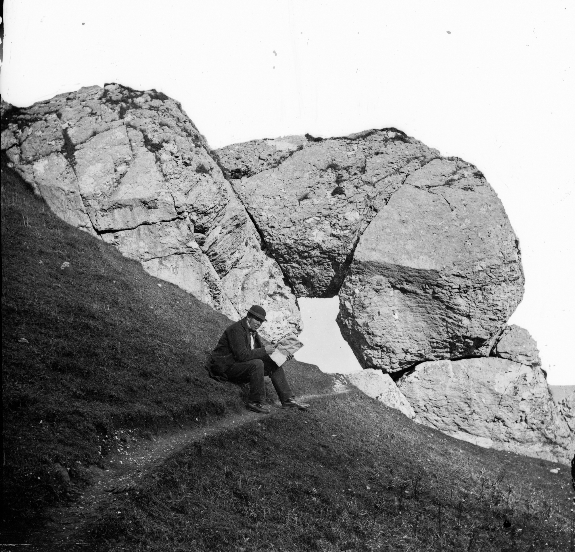 Didn't know if this one might be too much of a toughie (technical term) but we wanted to know where this gentleman was sitting... And robinparkes supplied the answer - Madman's Window at Glenarm in Co. Antrim! Date: 1860-1883 NLI Ref.: STP_0399